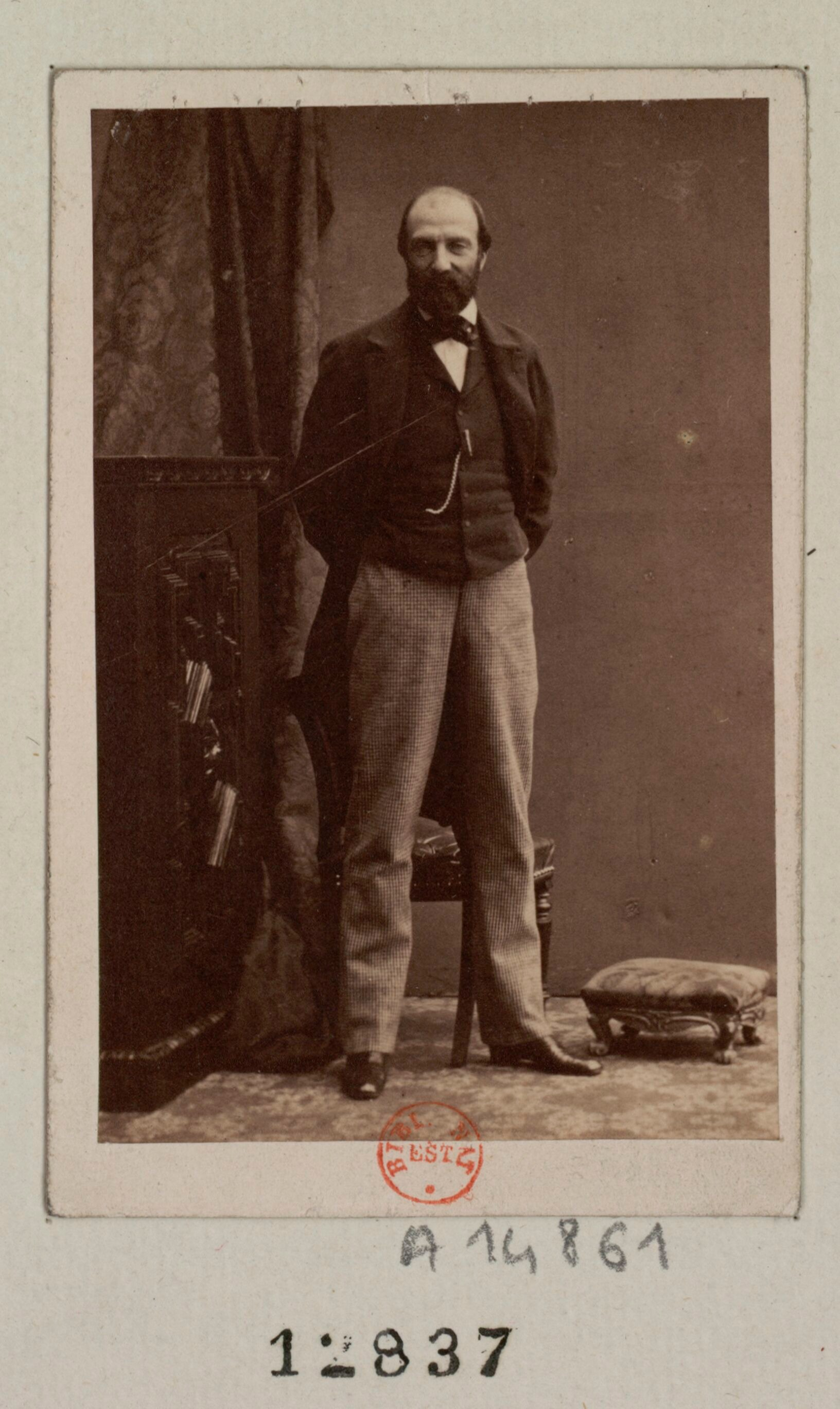 François d'Orléans, Prince of Joinville, standing